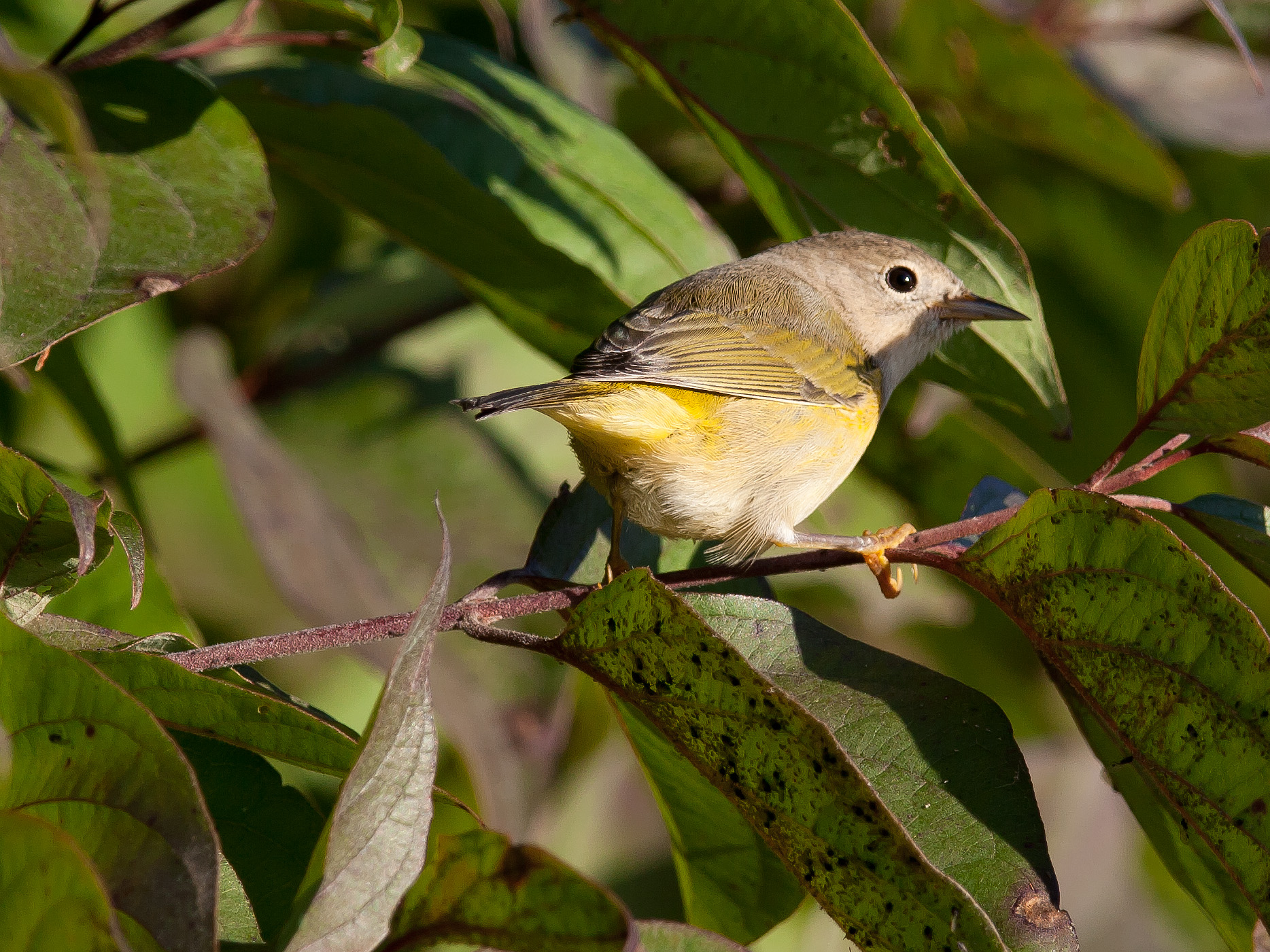 A young female Nashville Warbler at Owen Park in Madison, Wisconsin